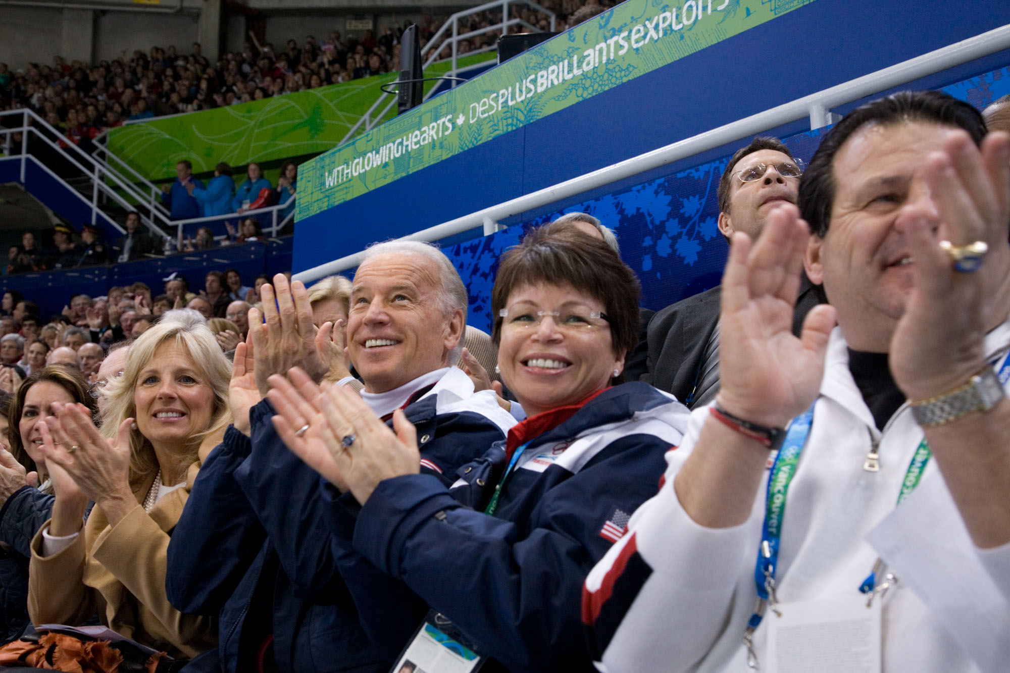 Dr. Jill Biden, Vice President Joe Biden, Valerie Jarrett and Mike Eruzione cheer on Team USA during the Pairs Figure Skating Short Program competition at the 2010 Winter Olympics in Vancouver